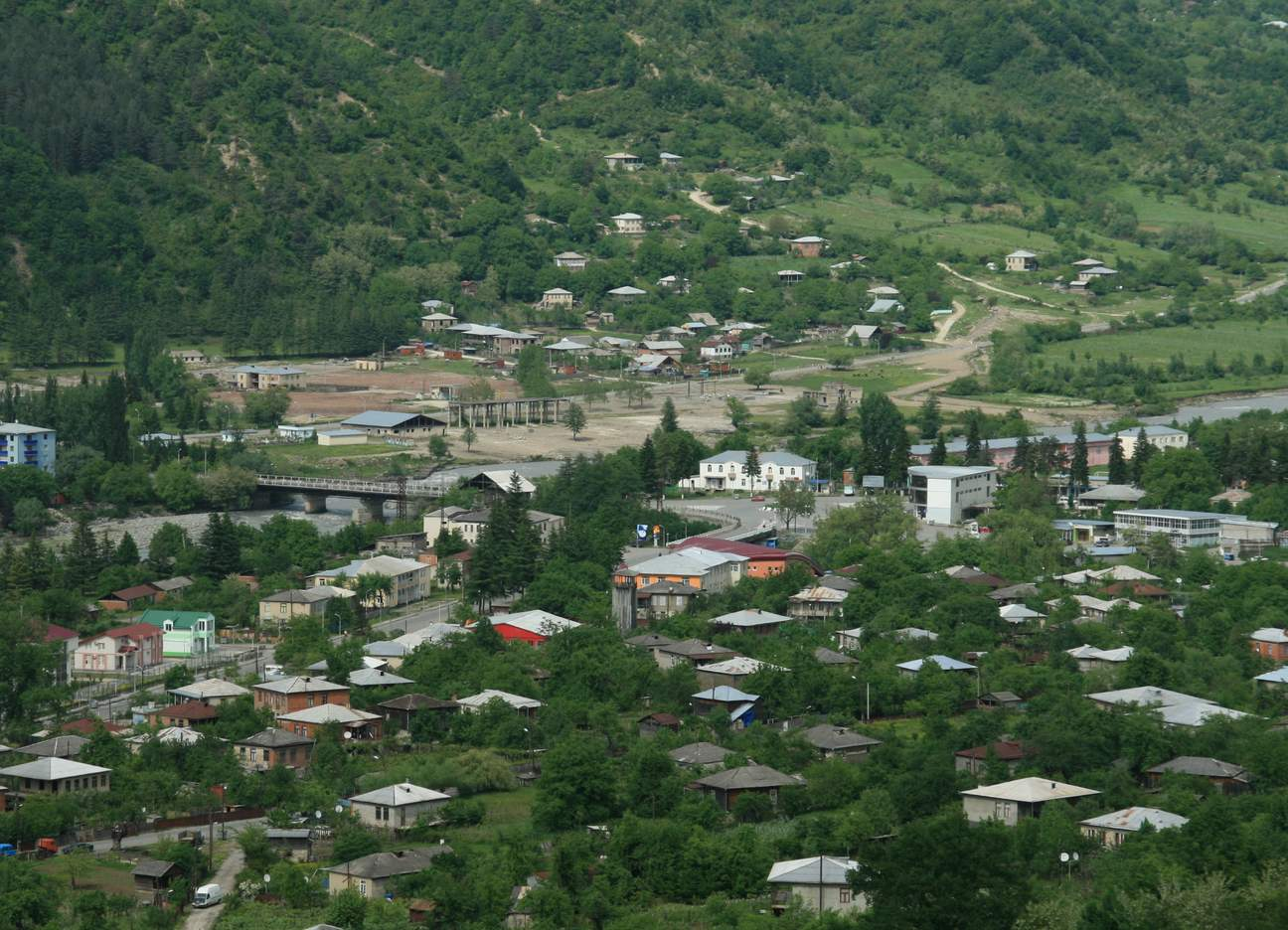 Ambrolauri, a town in NW Georgia.